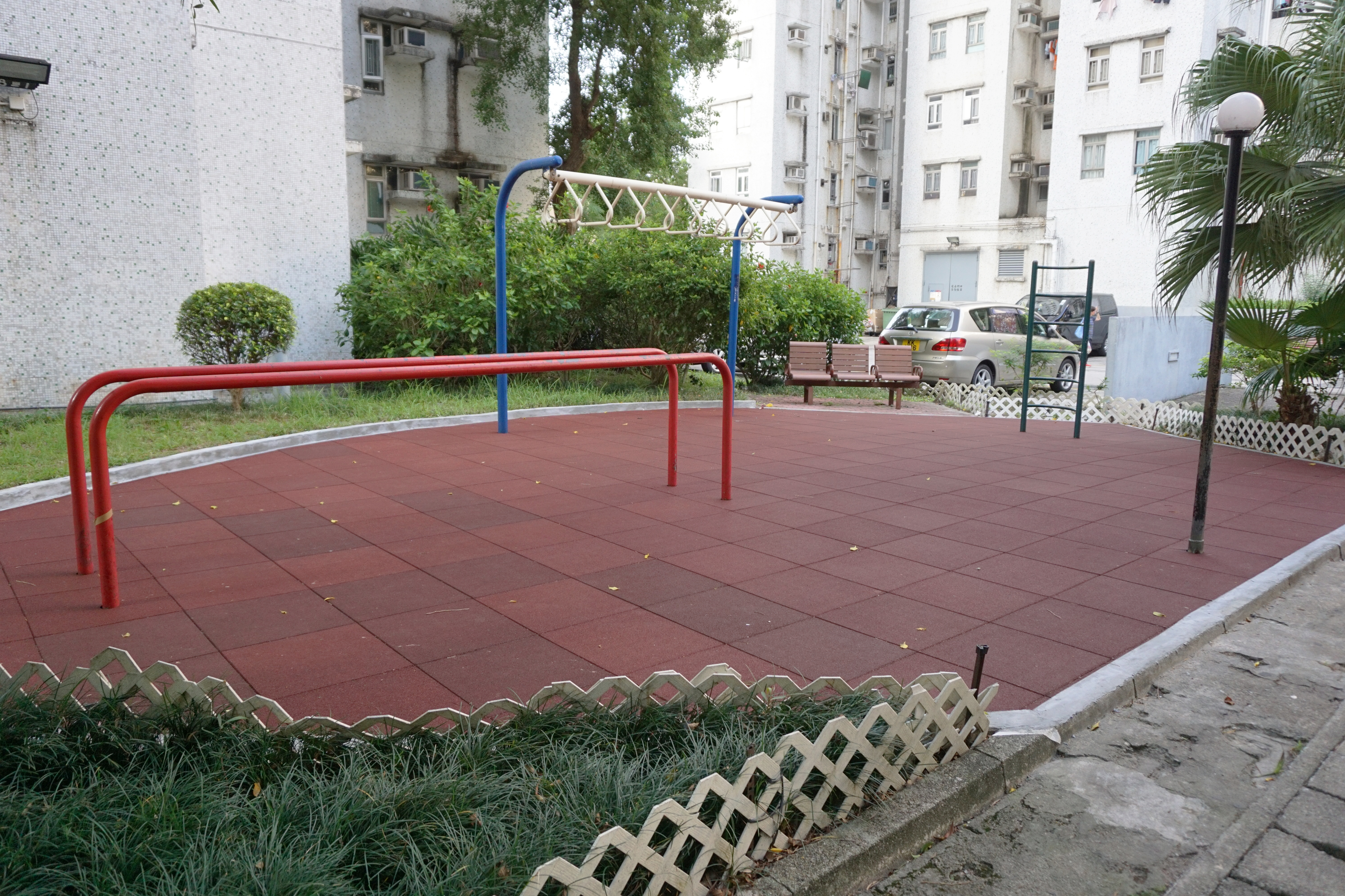 Chevalier Garden in Tai Shui Hang, Hong Kong.